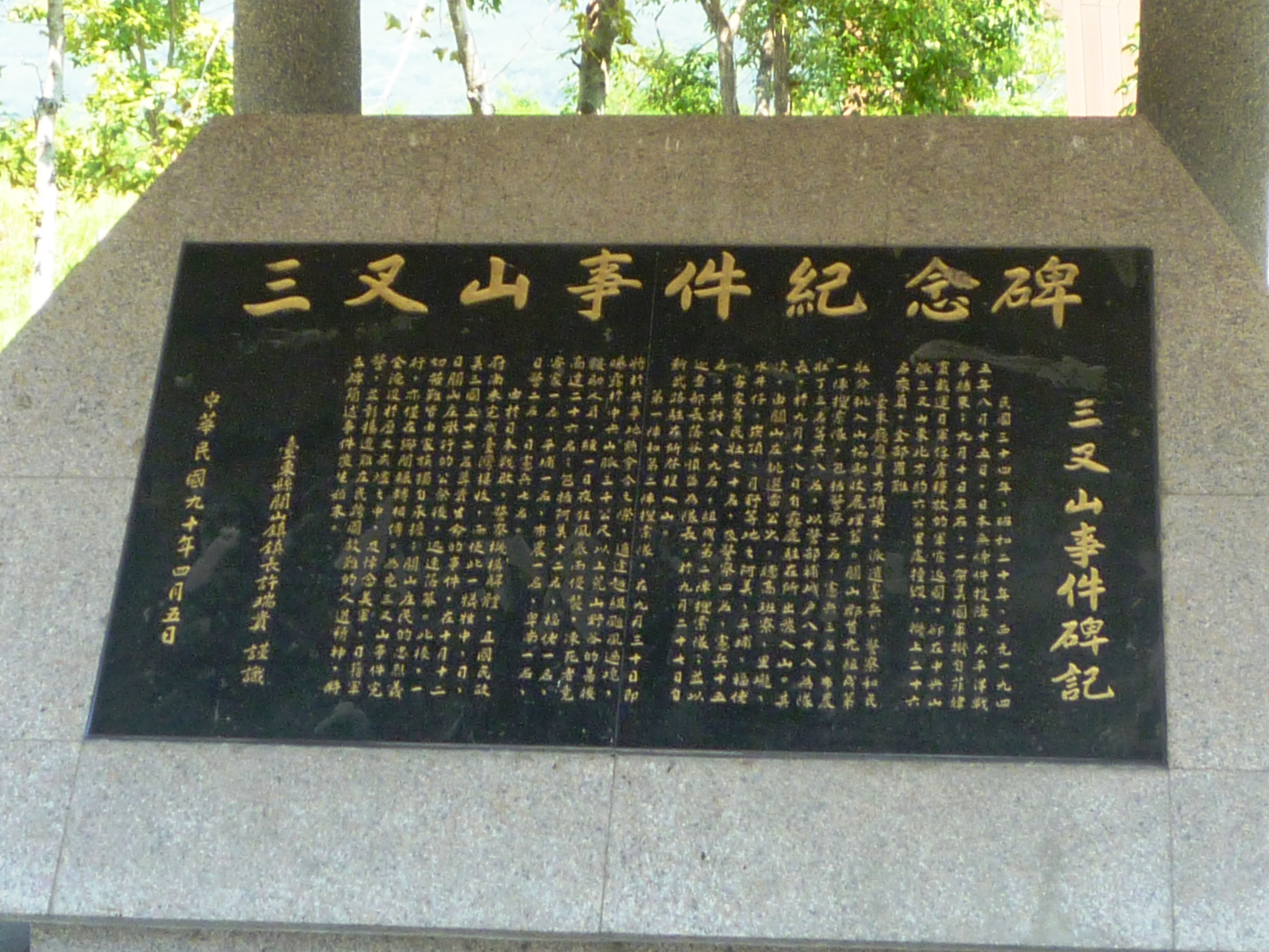 This photo is shows the Memorial for Sanchashan Incident, located in Guanshan Waterfront Park.